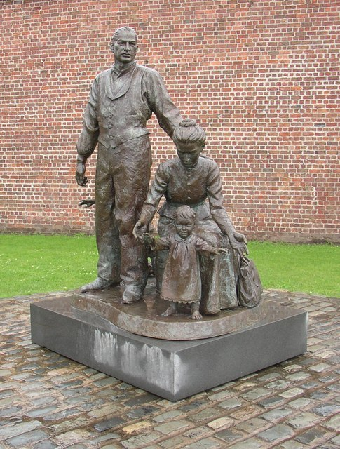 The Emigrants (statue), Albert Dock, Liverpool A bronze sculpture by Mark De Graffenried, 2001. This statue of a young family commemorates migration from Liverpool to the new world. It was given to the people of Liverpool by members of The Church of Jesus Christ of Latter-day Saints (Mormon church) as a tribute to the many families from all over Europe who embarked on a brave and pioneering voyage from Liverpool to start a new life in America. The child stepping forward at the front symbolises migration to the unknown world, whilst the child playing with a crab at the back indicates a deep association with the sea.